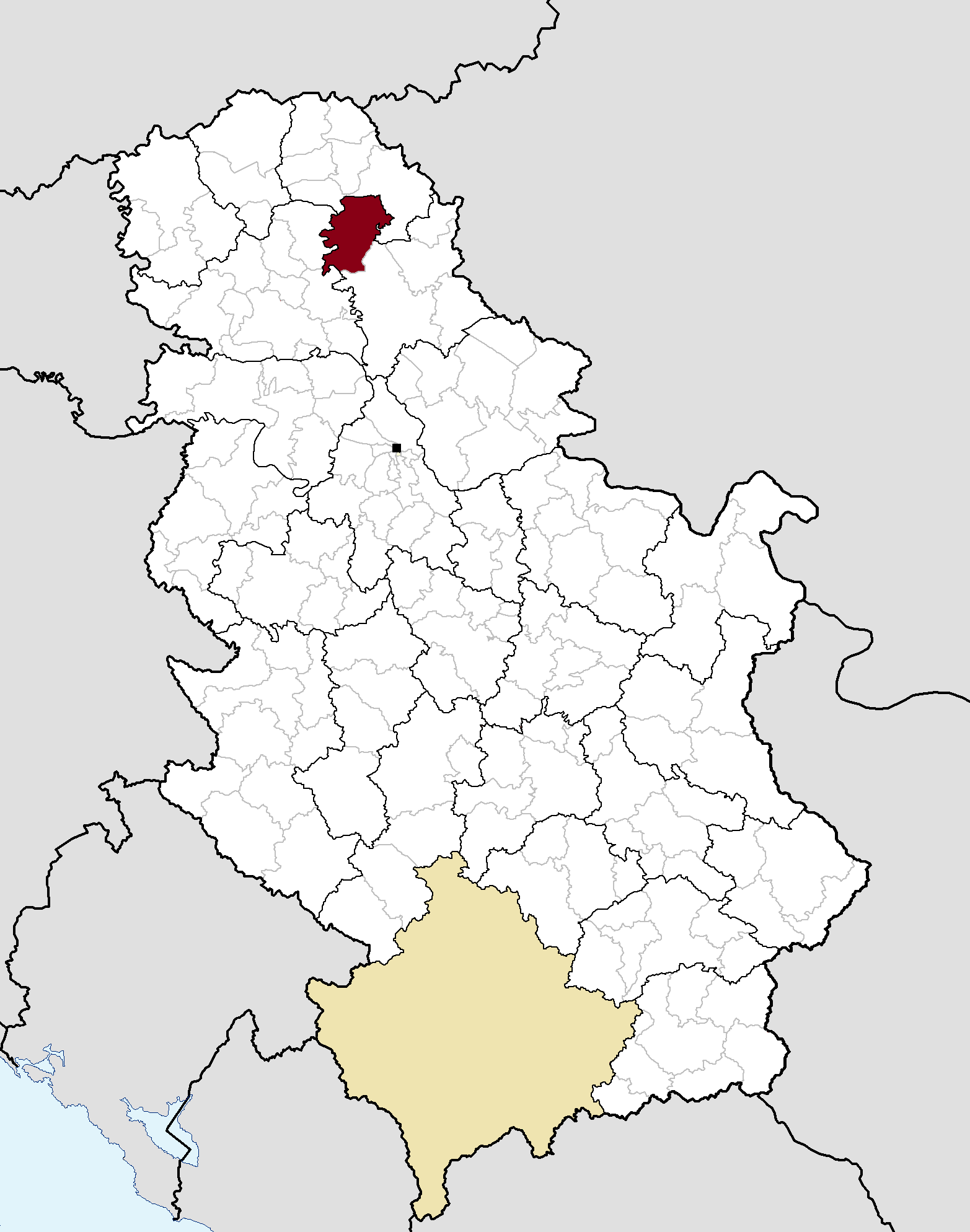 Municipal location in Serbia